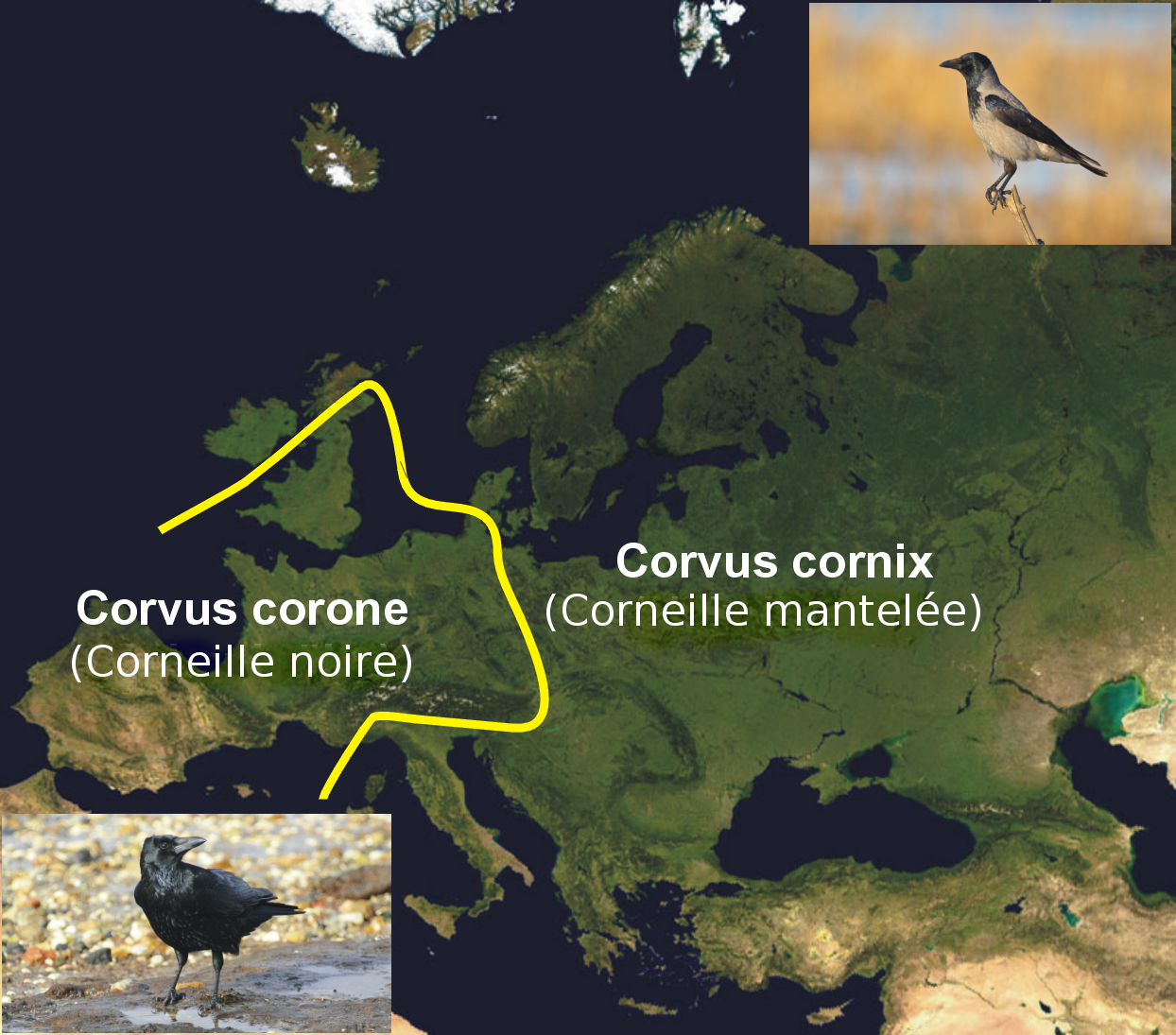 This map is the french translation of File:Distribution map Corvus corone and C. corvix.png (Author : Nalagtus) An image created using a combination of Wikimedia Commons images (File:Europe satellite globe.jpg; File:Corvus corone -near Canford Cliffs, Poole, England-8.jpg; and File:Nebelkrähe Corvus cornix.jpg)